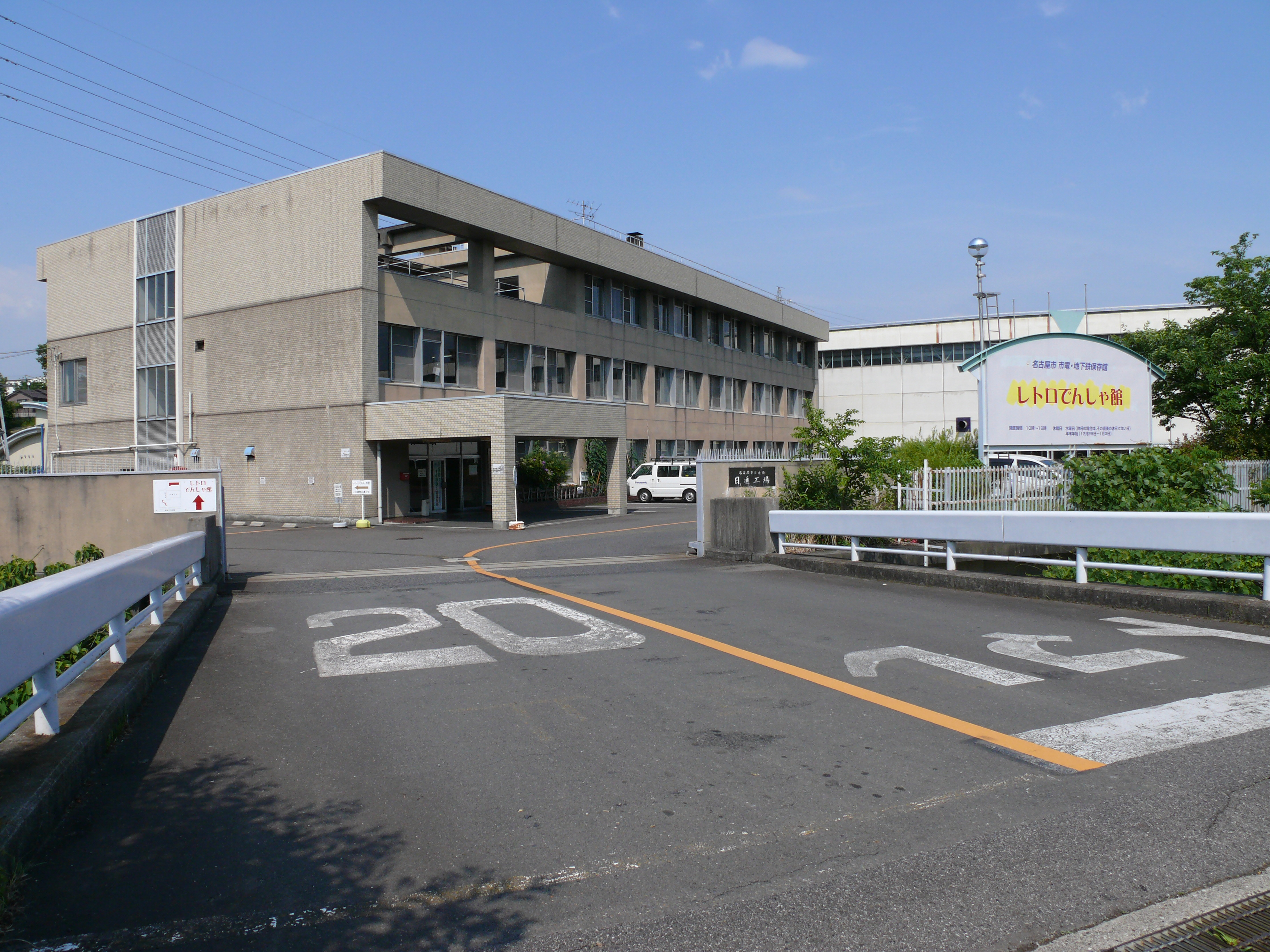 Nagoya City Tram & Subway Museum.